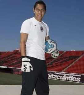 Fútbol , xolos.